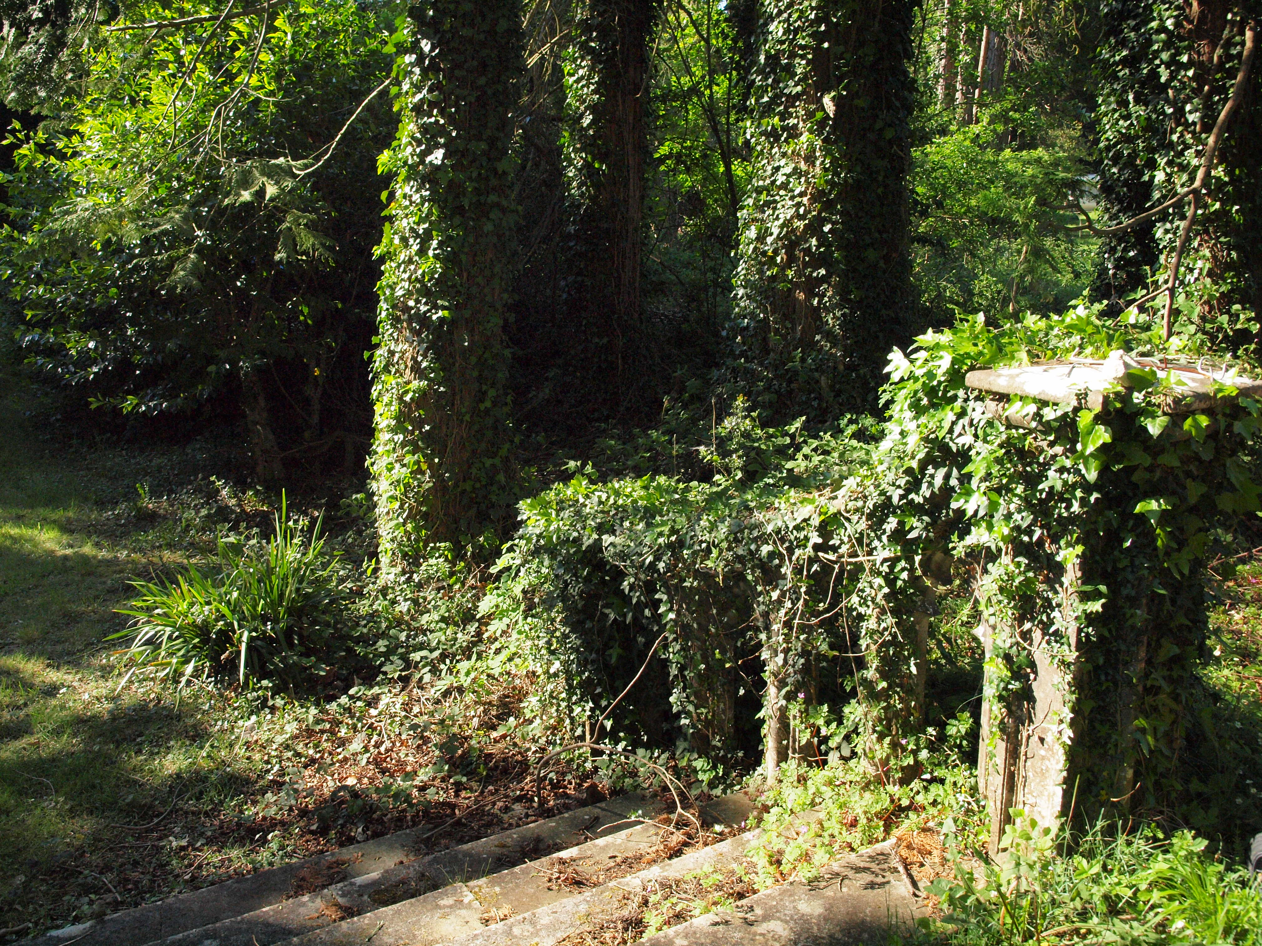 Part of the overgrown formal gardens of Charleville Castle, Co.Offaly